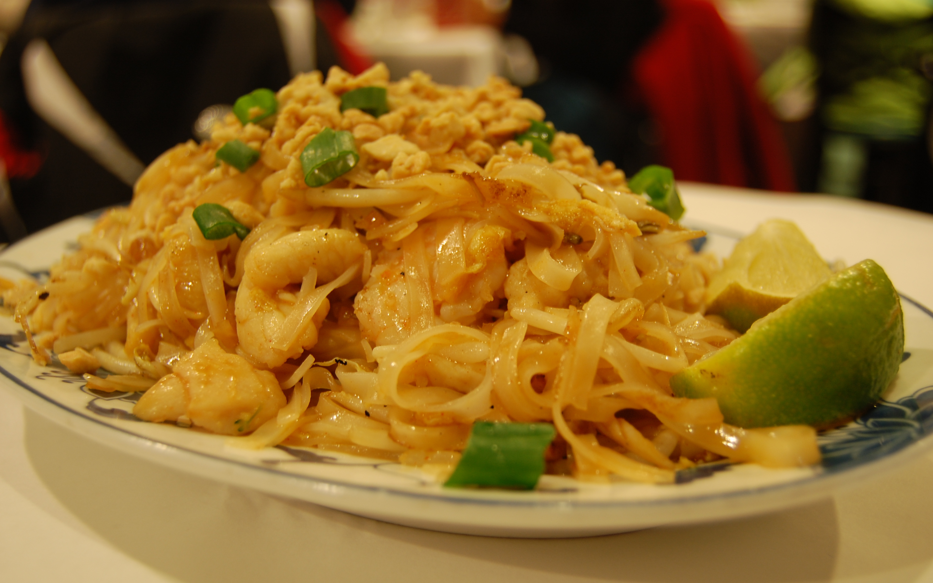 A mound of pad thai